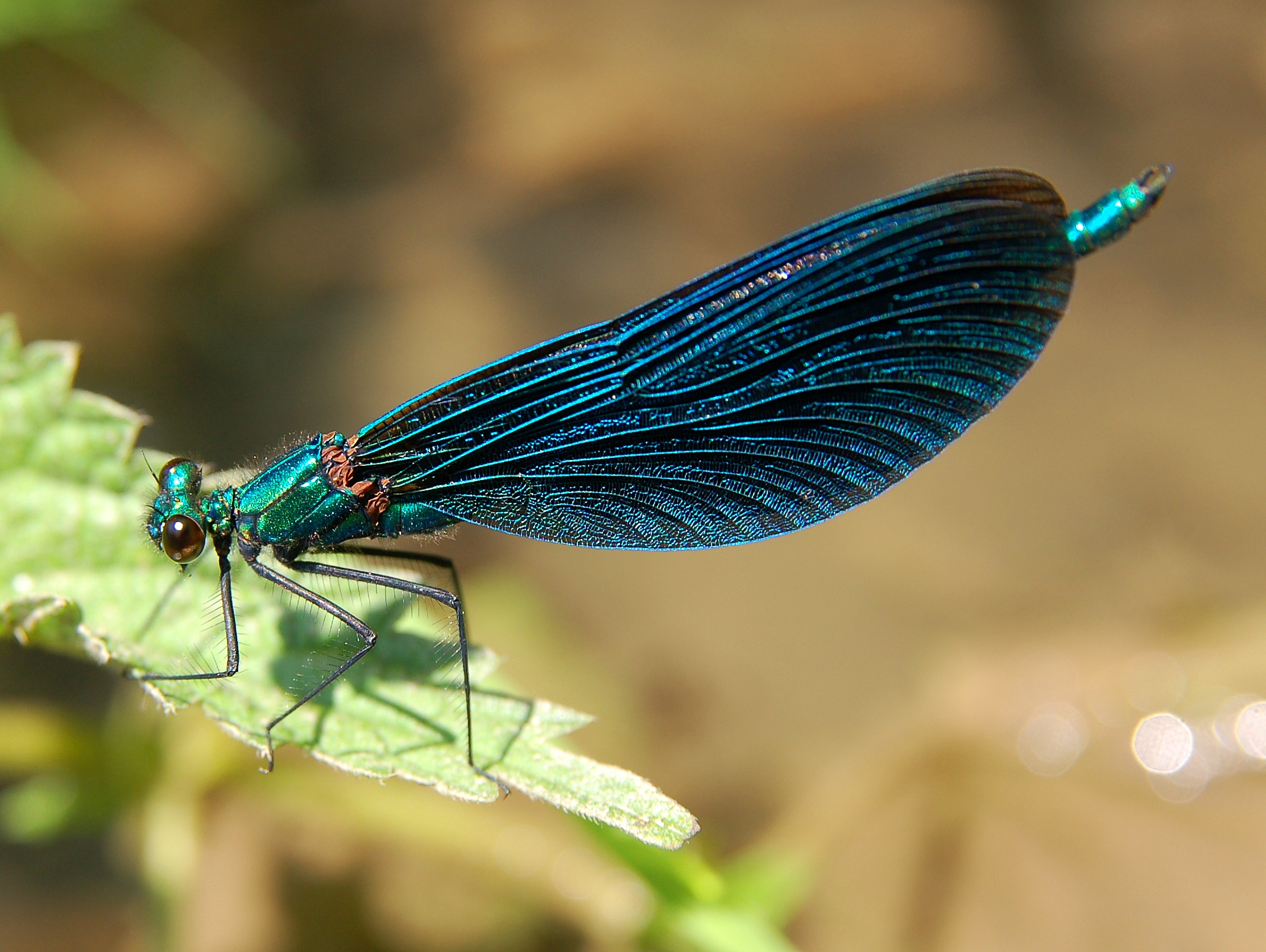 Calopteryx virgo (Male) in Belgium (Hamois).